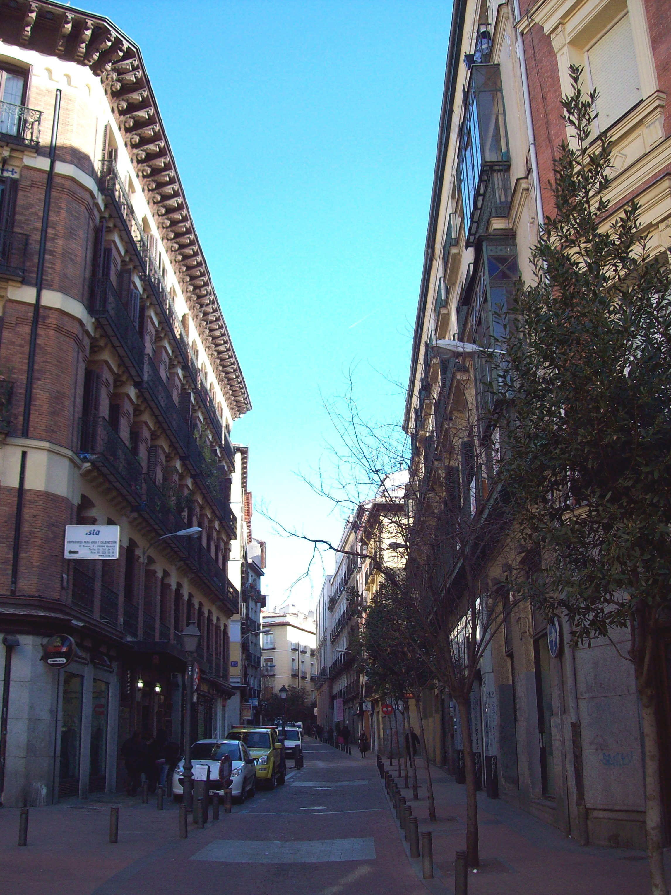 View from Calle del Pez (street, Centro district) in Madrid (Spain).